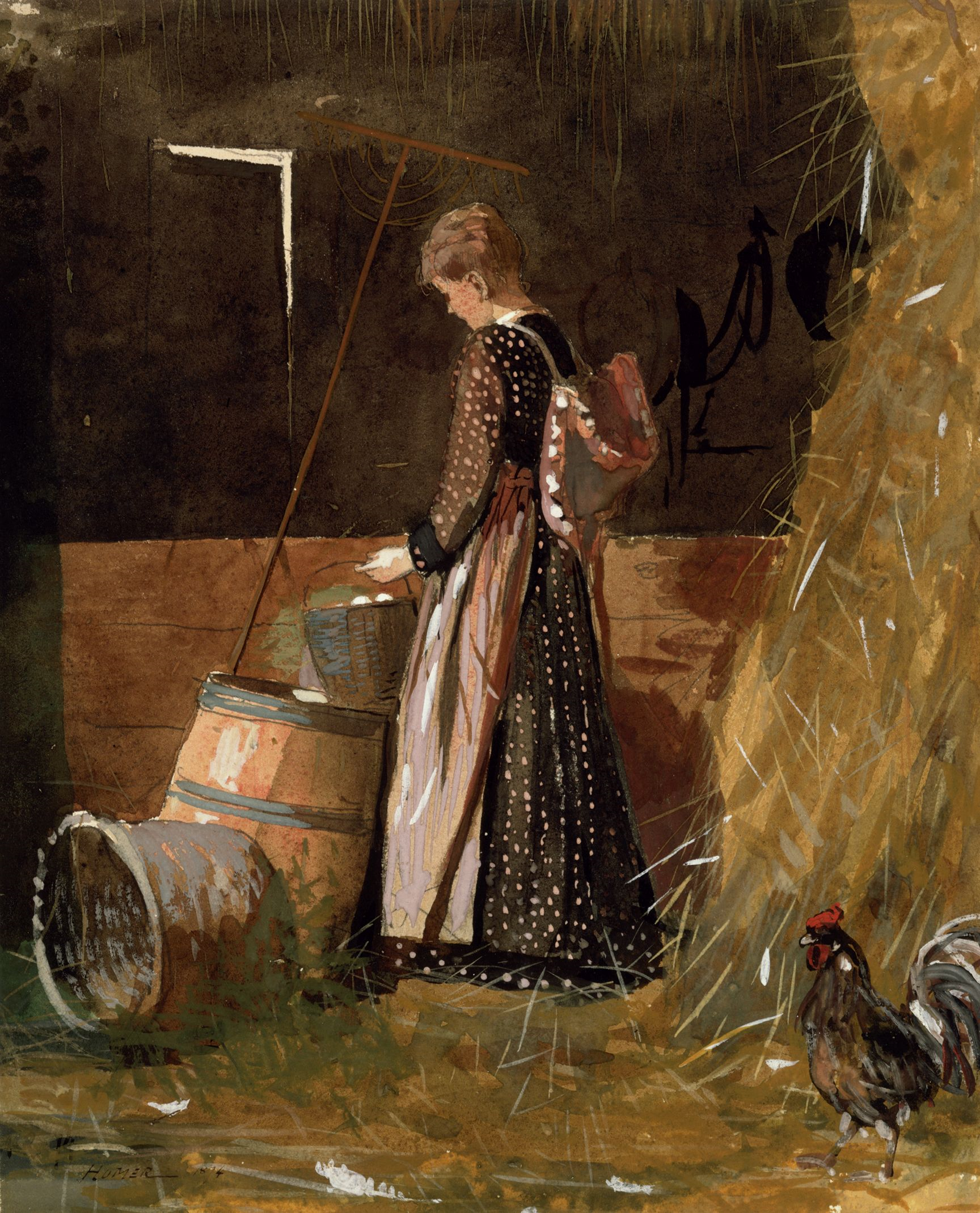 Watercolor, gouache and graphite on paper.